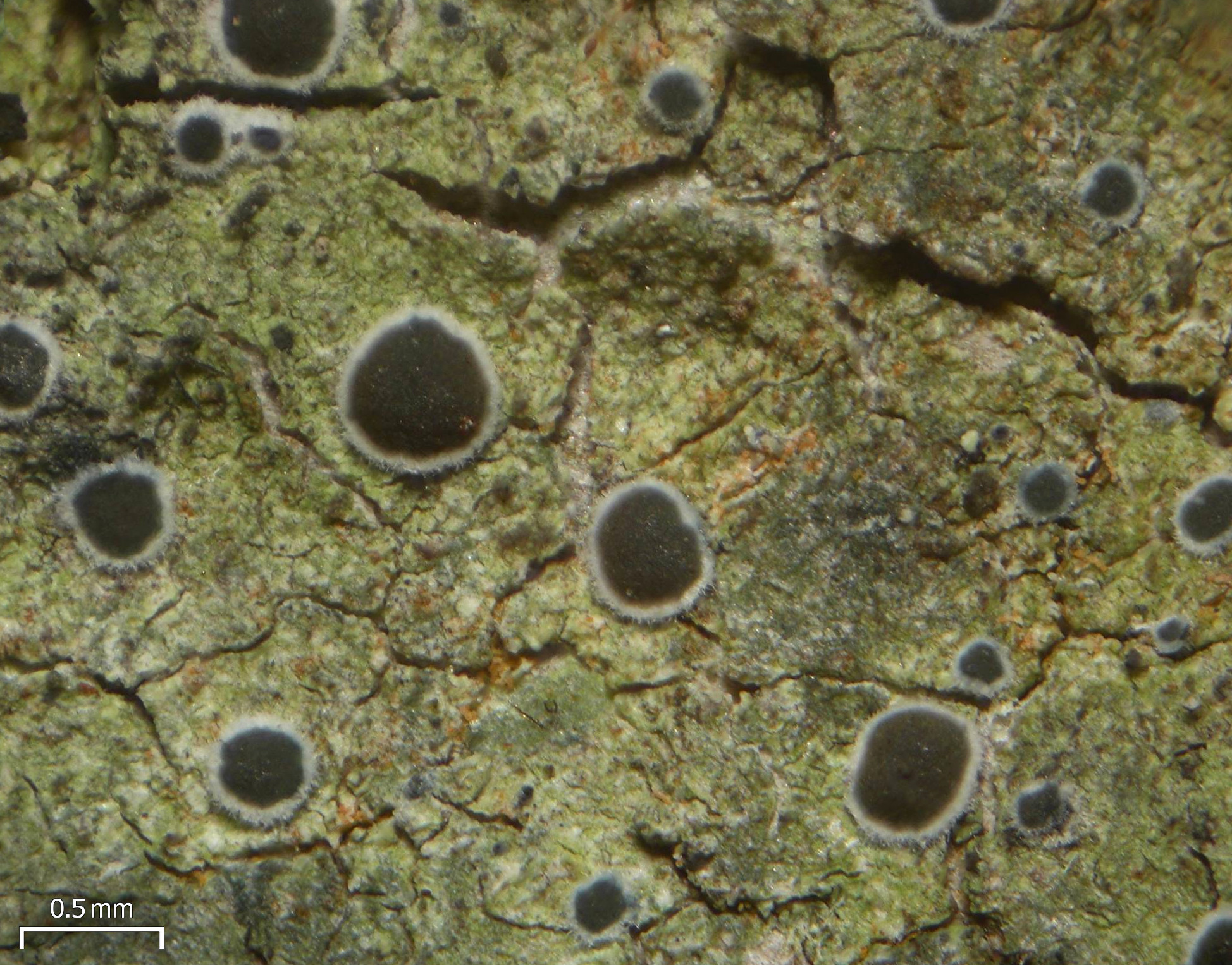 on Acer rubra, Alligator National Wildlife Refuge, NC, 20140321 ver. J. Lendemer 6201, at NY